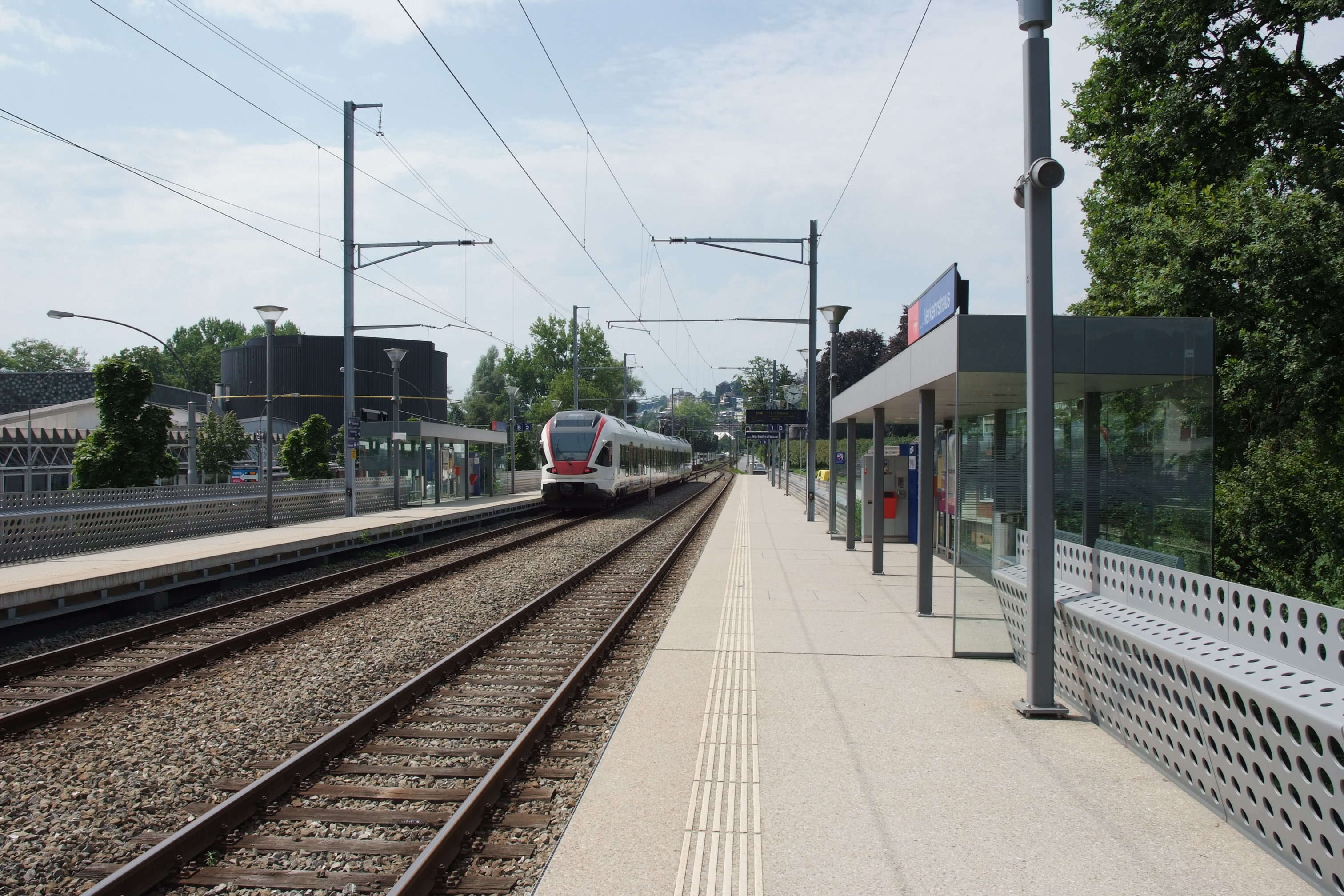 Luzern Verkehrshaus train station, picture taken on the railway platform